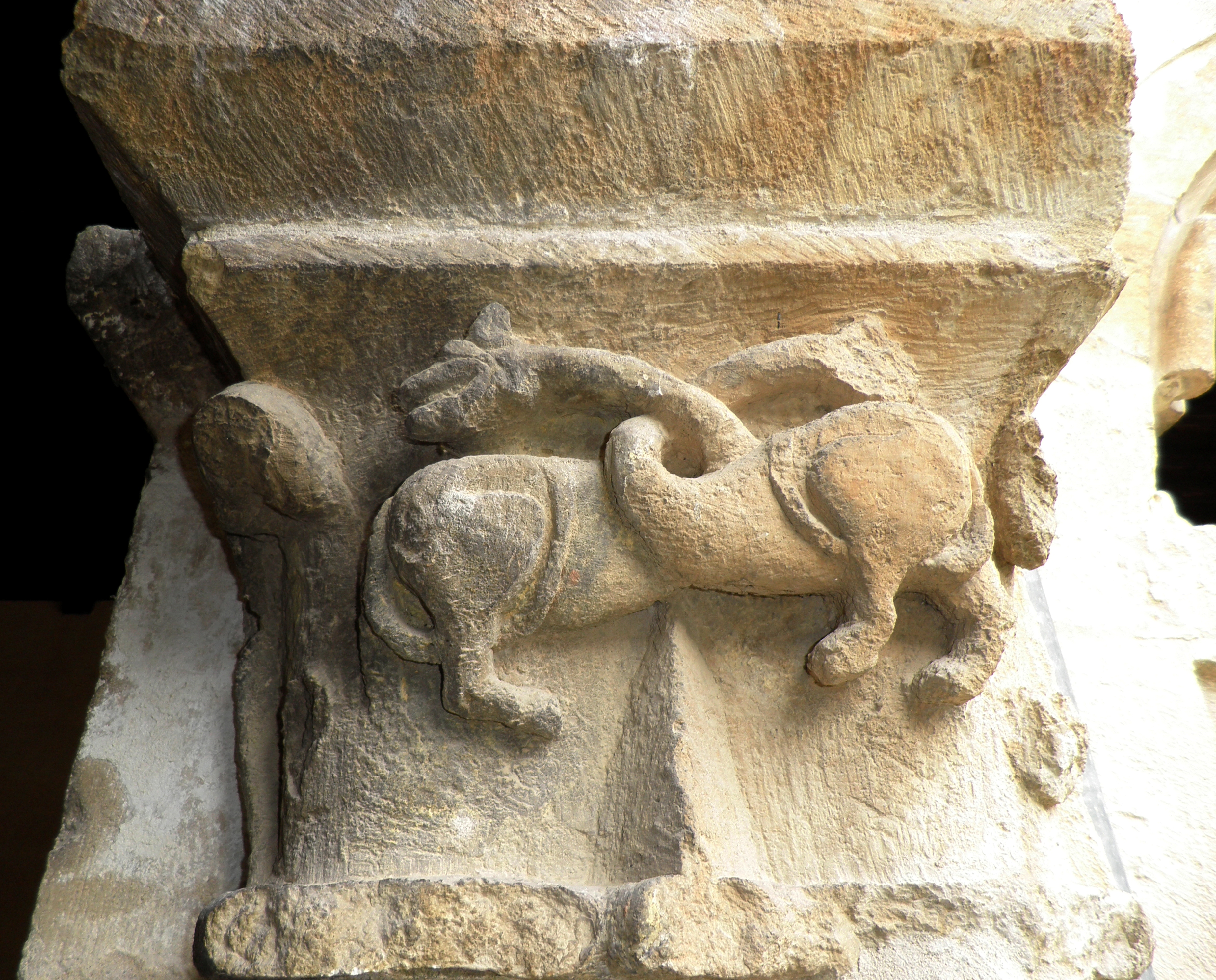 1st capital in western corridor of the church of Santa María la Real de Nieva, Segovia province, Spain. Two basilisk crossing their necks, allegory of evil.